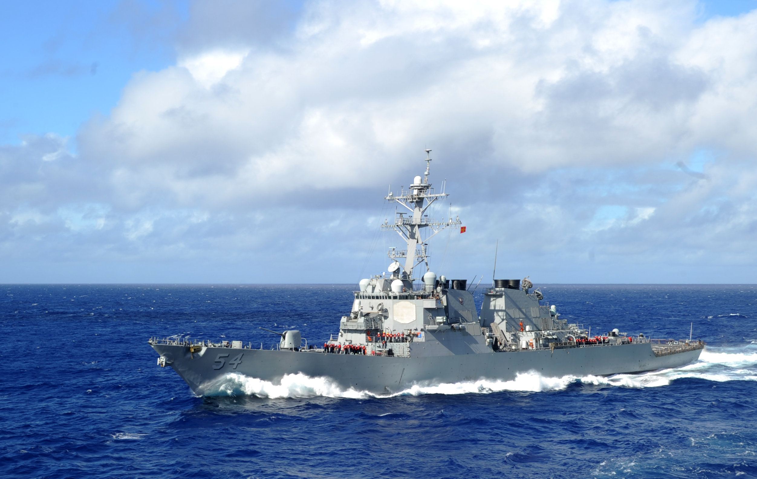 The guided missile destroyer USS Curtis Wilbur (DDG 54) steams through the Philippine Sea Aug. 19, 2013. The Curtis Wilbur was part of the George Washington Carrier Strike Group and was underway in the U.S. 7th Fleet area of responsibility supporting maritime security operations and theater security cooperation efforts.